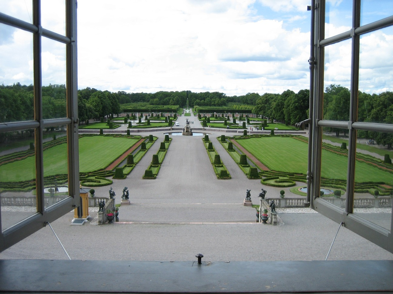 A view of the baroque garden of Drottningholm Palace in Sweden. Photograph taken by me, August 2005. Released to public domain --Purple 04:36, 22 January 2006 (UTC)